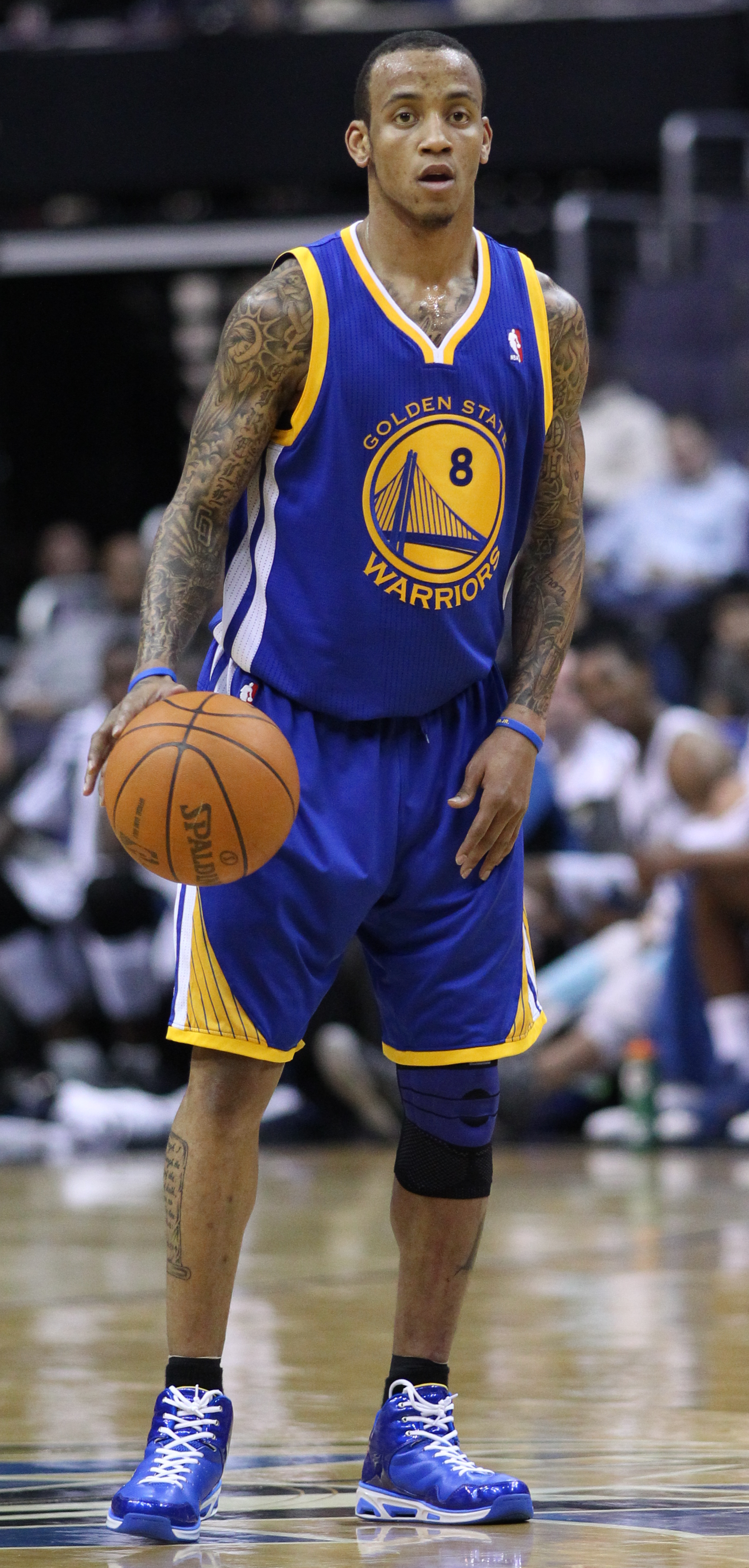 Monta Ellis, March 2011.